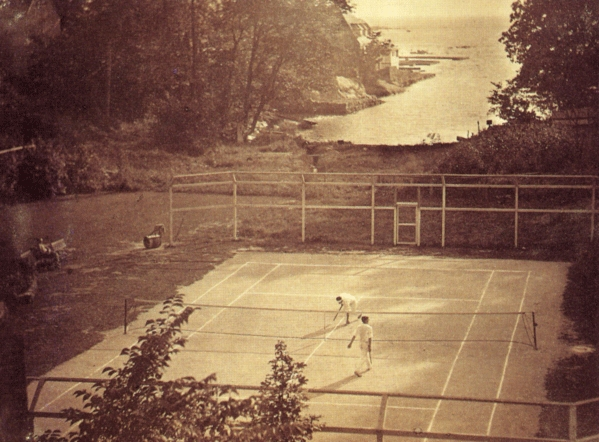 Stella F. Simon Tennis Match 1923 (ca) Library of Congress, Prints and Photographs Division Warren and Margot Coville Collection, Prints & Photographs Division, Library of Congress LL/15560 Clarence H. White School of Photography